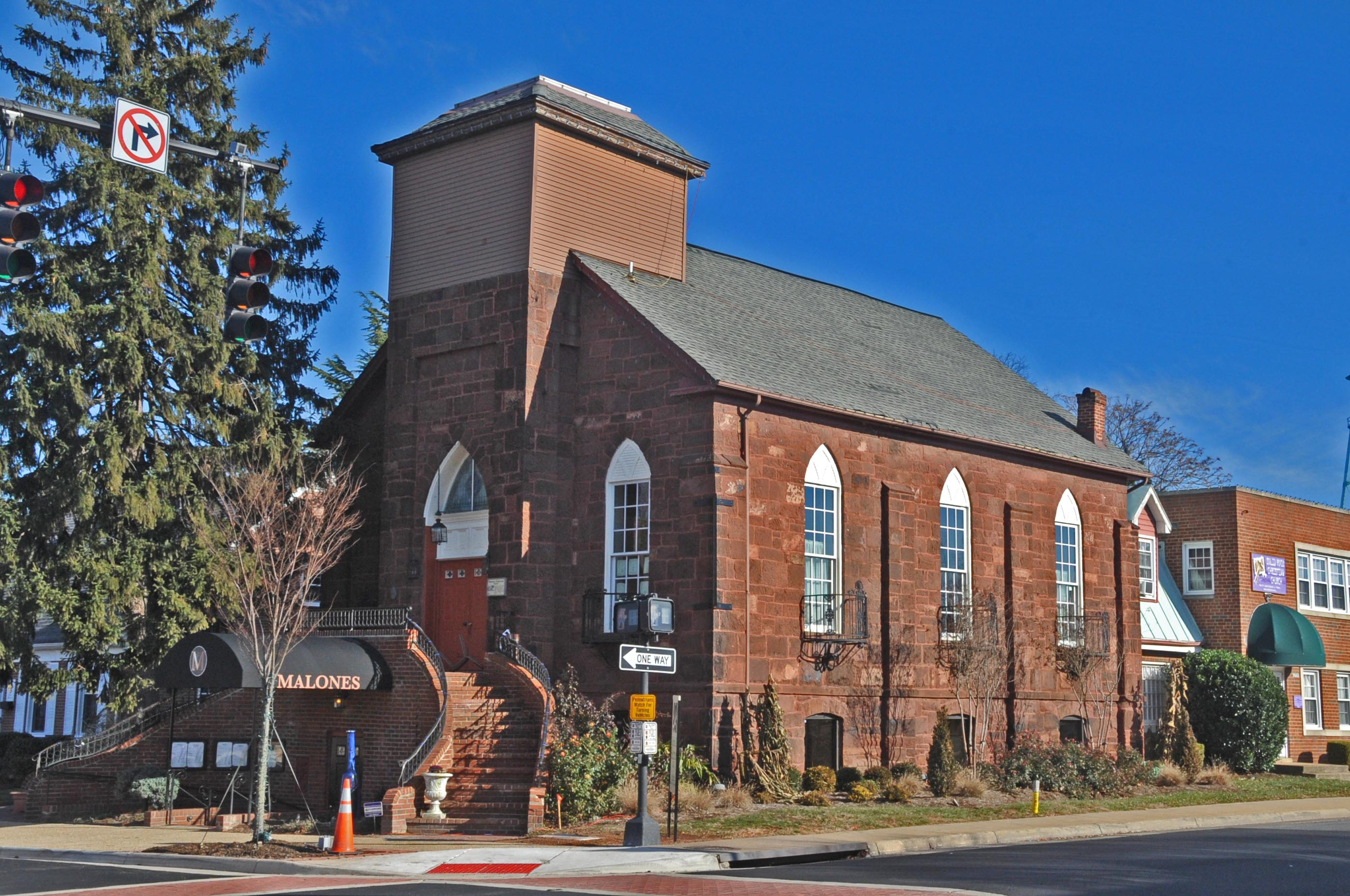 CHURCH BUILT IN 1875; THE CHURCH FEATURED IN THE FILM “MY SON JOHN” IN 1952 STARRING VAN HEFLIN AND HELEN HAYES. MANASSAS ESSENTIALY DEVELOPED AFTER THE CIVIL WAR; PRIOR TO THAT IT WAS AN IMPORTANT CROSSROADS TO TWO RAILROADS.